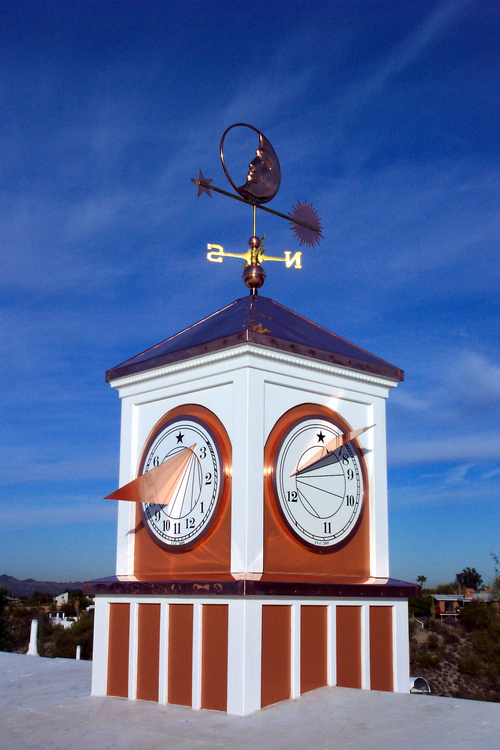 This is a rare four-sided porcelain sundial cupola by sundial maker and designer John Carmichael located on top of his house in Tucson Arizona.